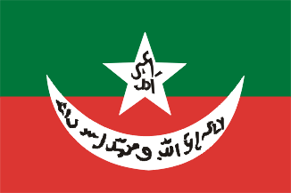 old flag of the Khanate of Kelat (Kalat, Khalat, Khelat) until 1680